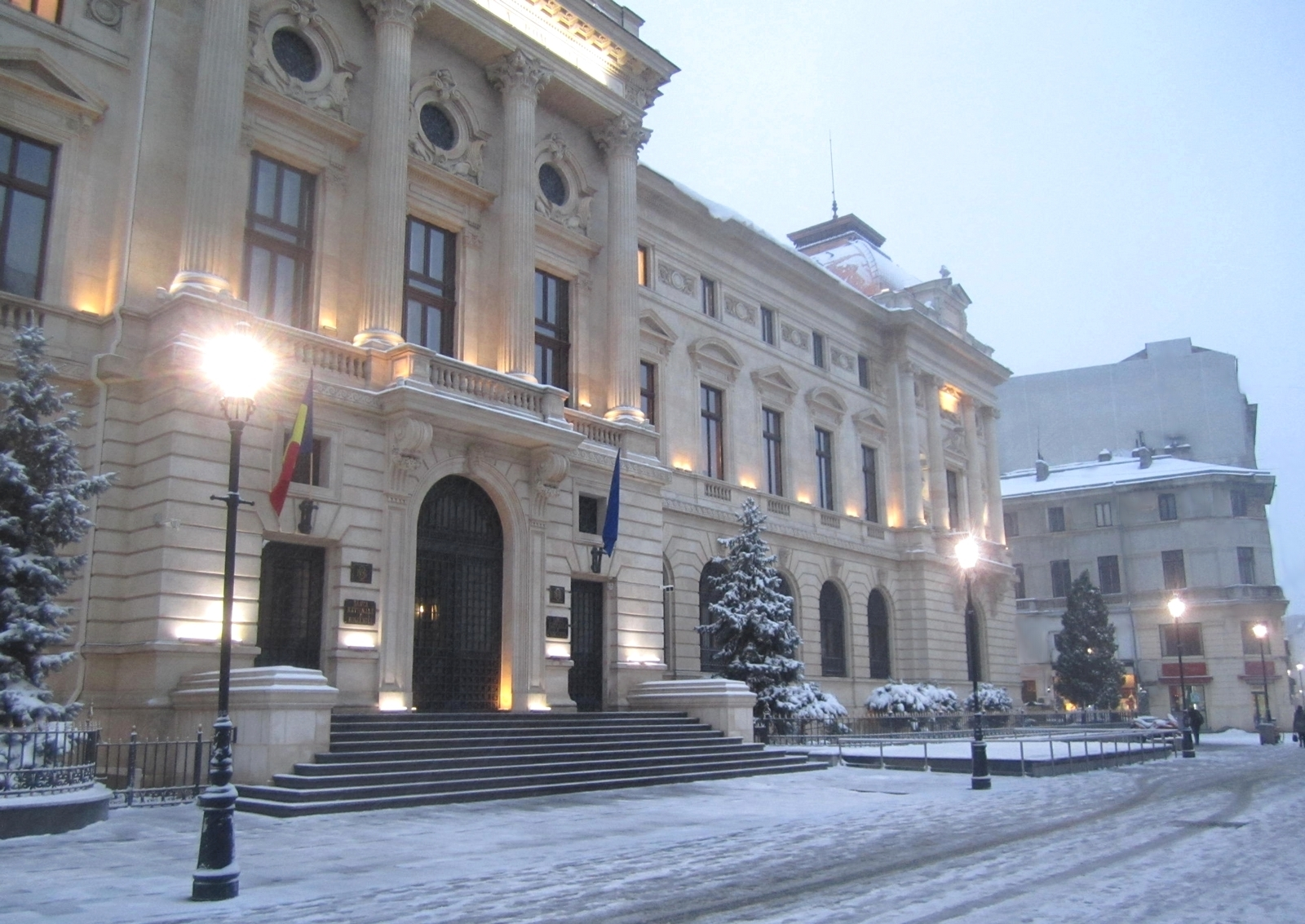 National Bank of Romania (BNR Palace) - Bucharest